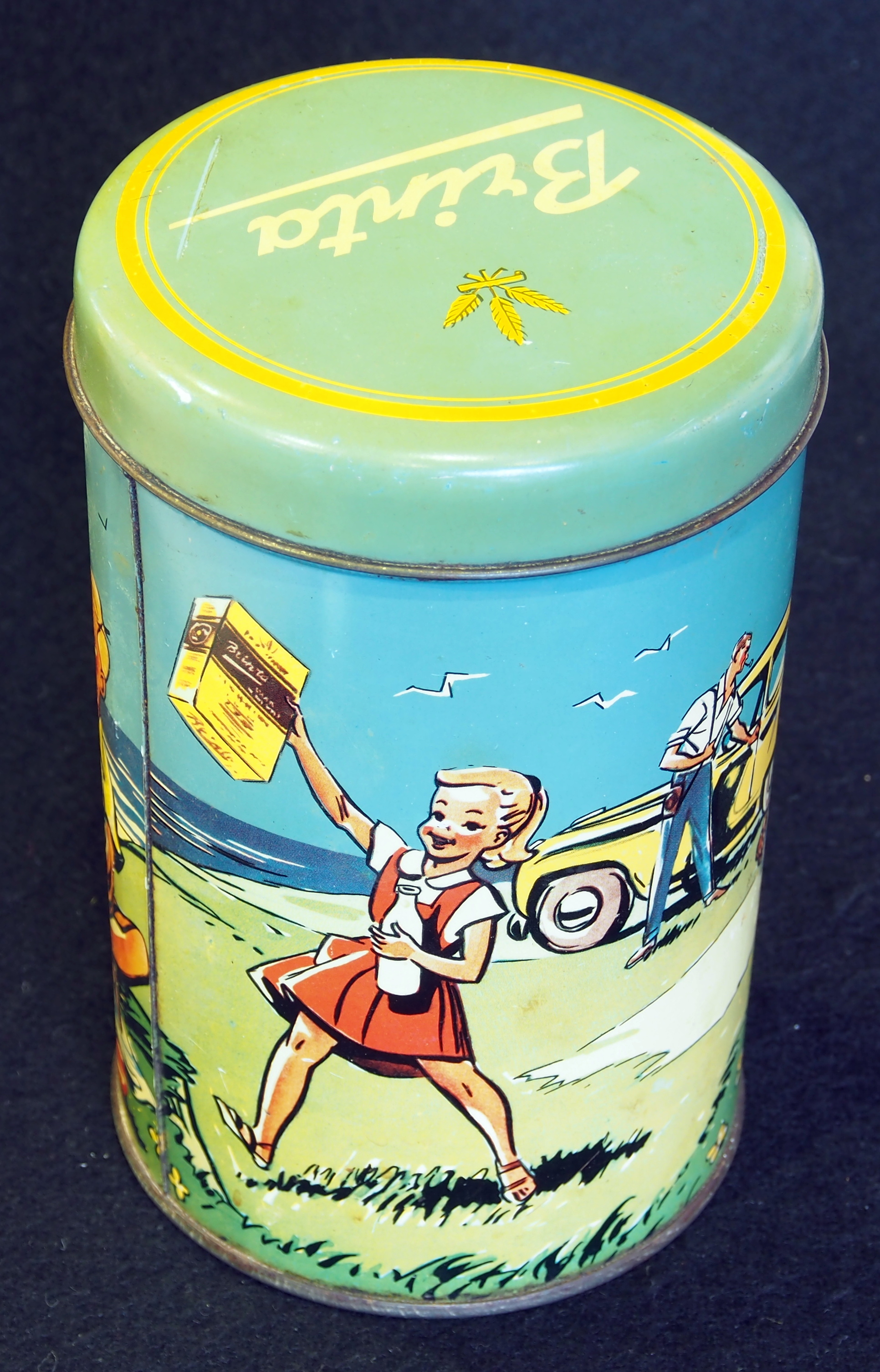 Very old product that is not produced and not sold any more. Note that some tins may look the same, but when looked for carefully there are some slight differences! For more info see tincollectors.nl or